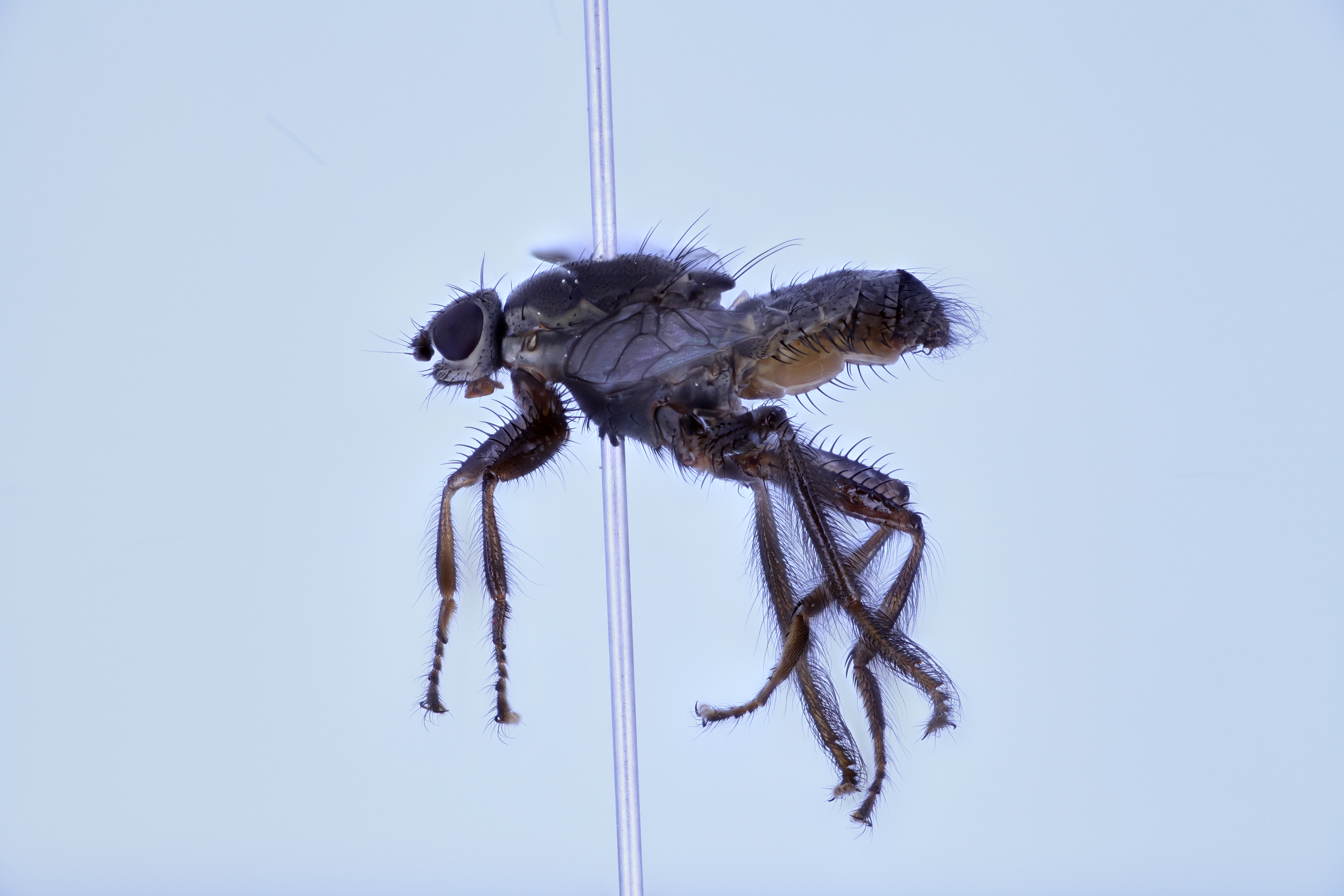 Male New Zealand hairy kelp fly (Chaetocoelopa littoralis), pinned specimen, lateral view.